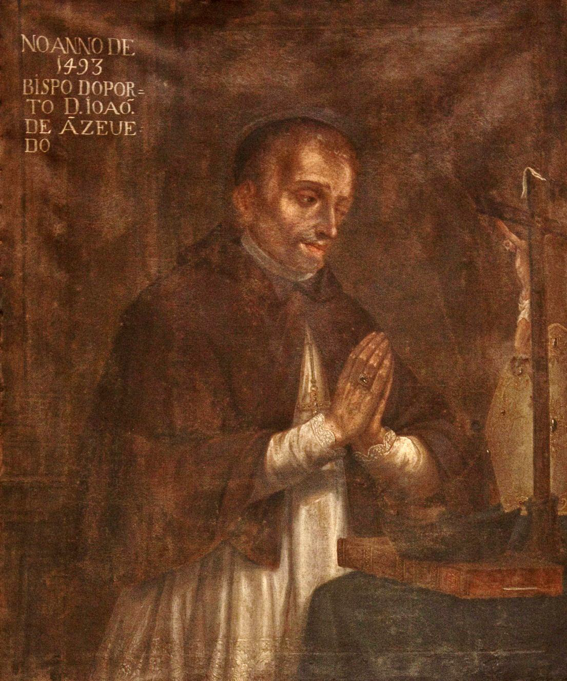 D. João de Azevedo, bishop of Porto.